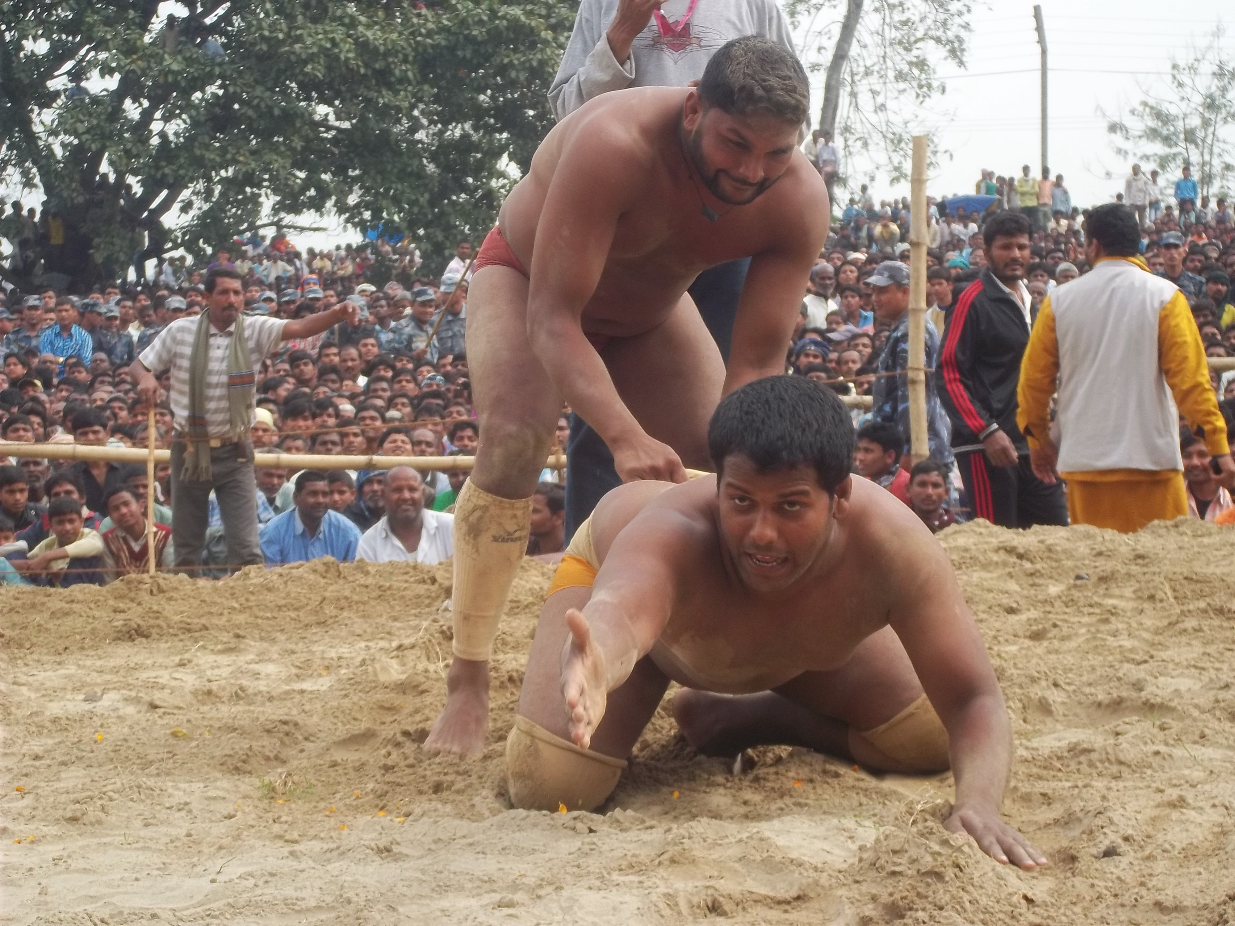 Kusti competition held on 24 February 2013, in Nepal.